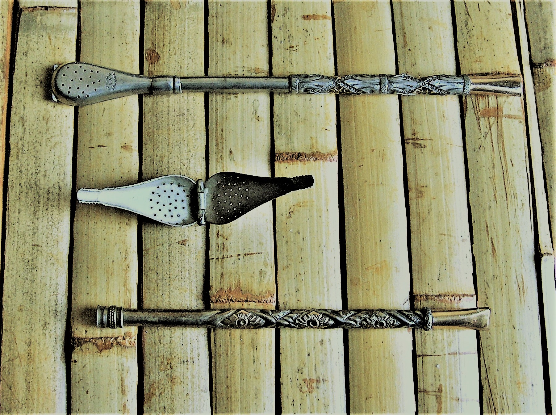 Bombillas